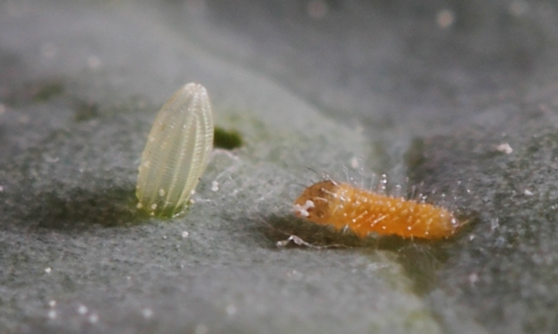 Pieris rapae (Small White), caterpillar from egg